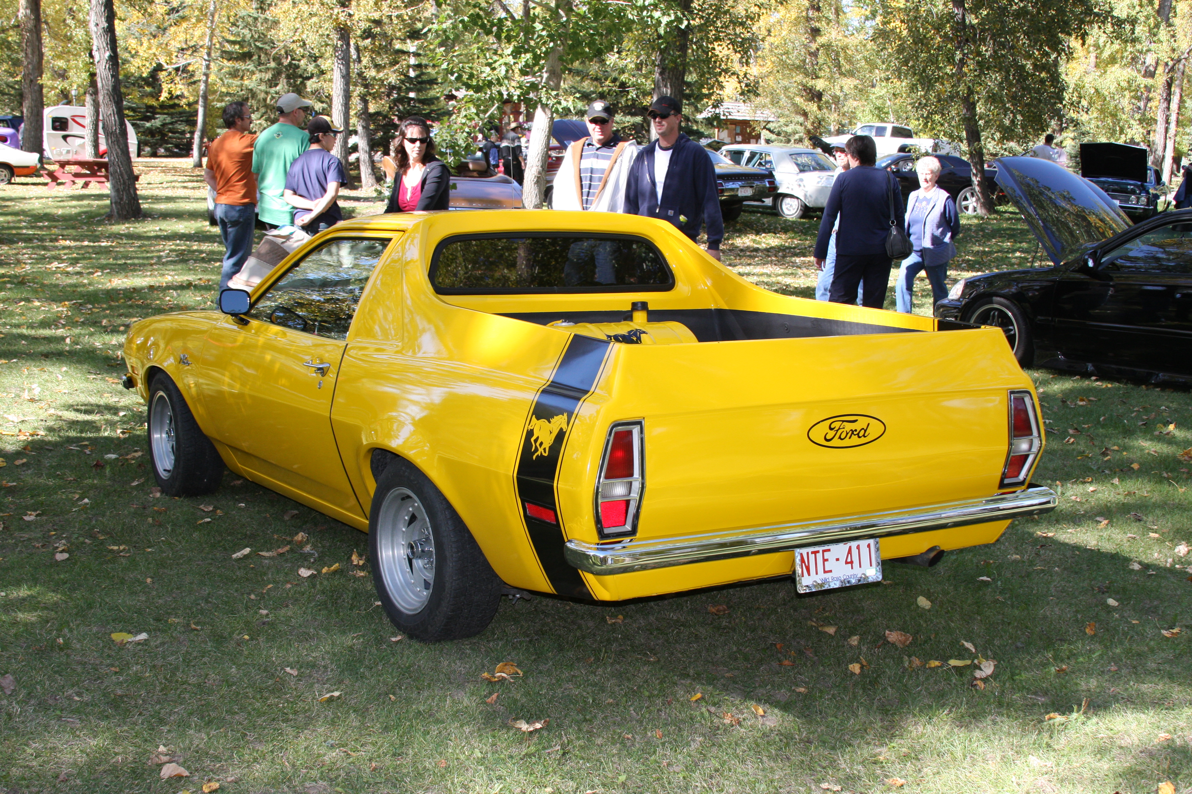 1972 Ford Pinto Wagon Custom - The Pinchero